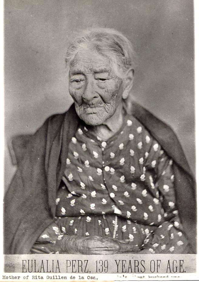 The image of Californio supercentenarian Eulalia Pérez de Guillén Mariné (1765–1878), ca. 1870; published in 1900.